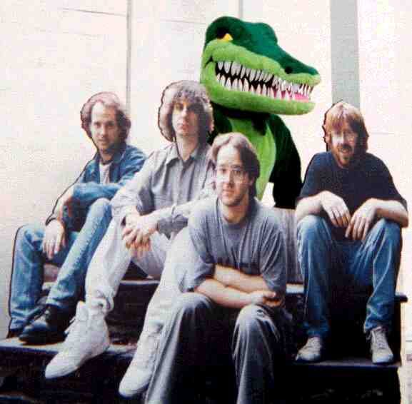 From Big Cypress Phish concert. New Years 2000. In picture is concert mascot-alligator, and a cut out of the band which was featured in the concert's entertainment village.